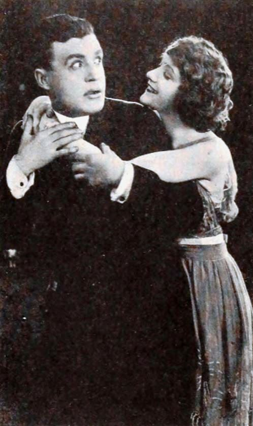 Still from the American comedy film In Search of a Sinner (1920) with Rockliffe Fellowes and Constance Talmadge, on page 63 of the April 10, 1920 Exhibitors Herald.